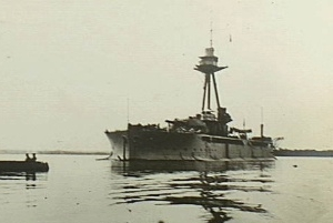 AWM caption : "The monitor, Sir Thomas Picton, which carried the old 12-inch guns of HMS Mars." Note : this is a clipped 300 pixel section of the original photograph held by the AWM, for using as a thumbnail closeup. See File:HMS Sir Thomas Picton 1916 AWM G01453.jpeg